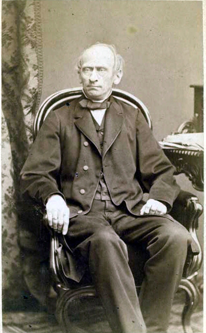 Depicted person: Moritz Brosig